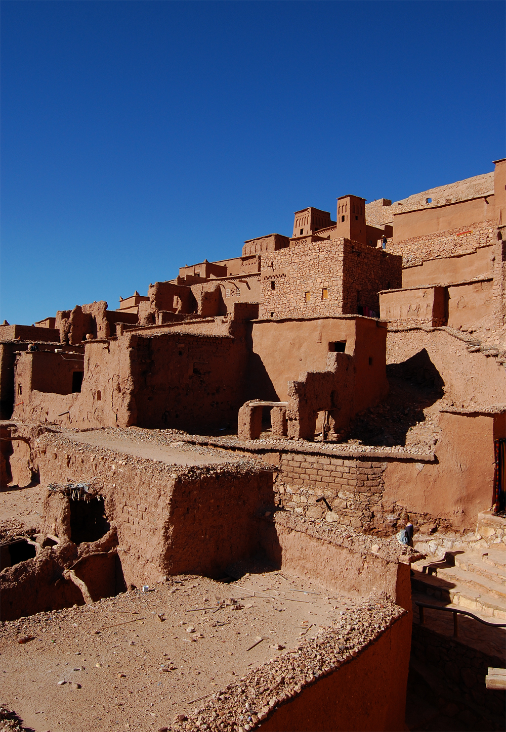 Details of Aït Benhaddou